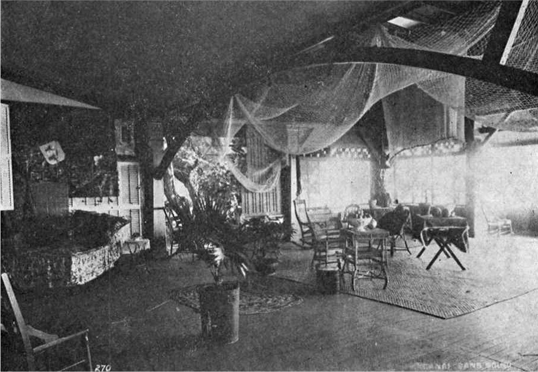 The Sans Souci Hotel in Honolulu, run by George Lycurgus, was the site of Hawaii counter-revolution plots in 1894. It was made famous also by Robert Lewis Stevenson's visits. ALthough the hotel is long gone, the beach in Waikiki is still called "Sans Souci Beach".